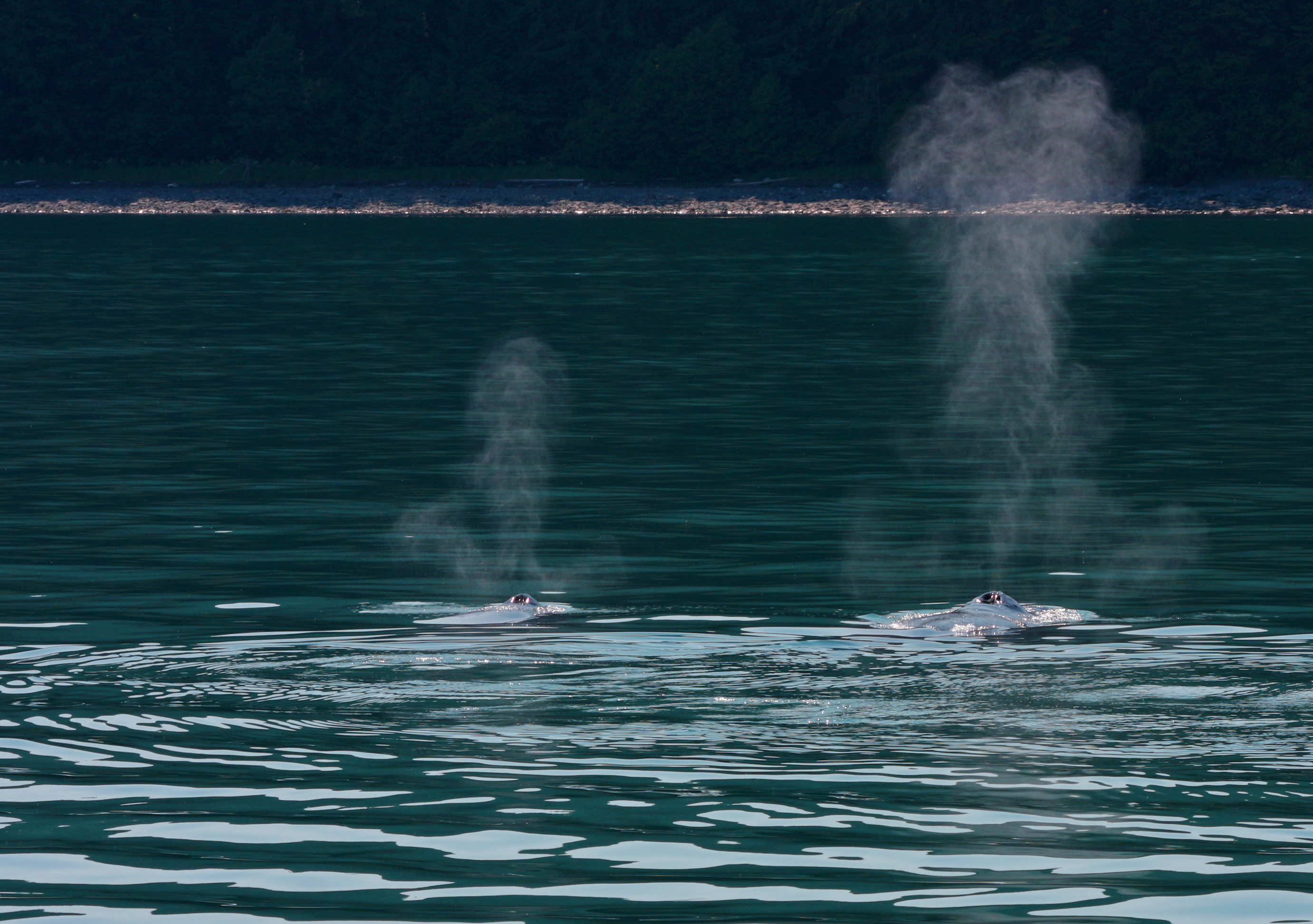 Mother and calf simultaneously blow as they swim through the green waters of the North Pacific.